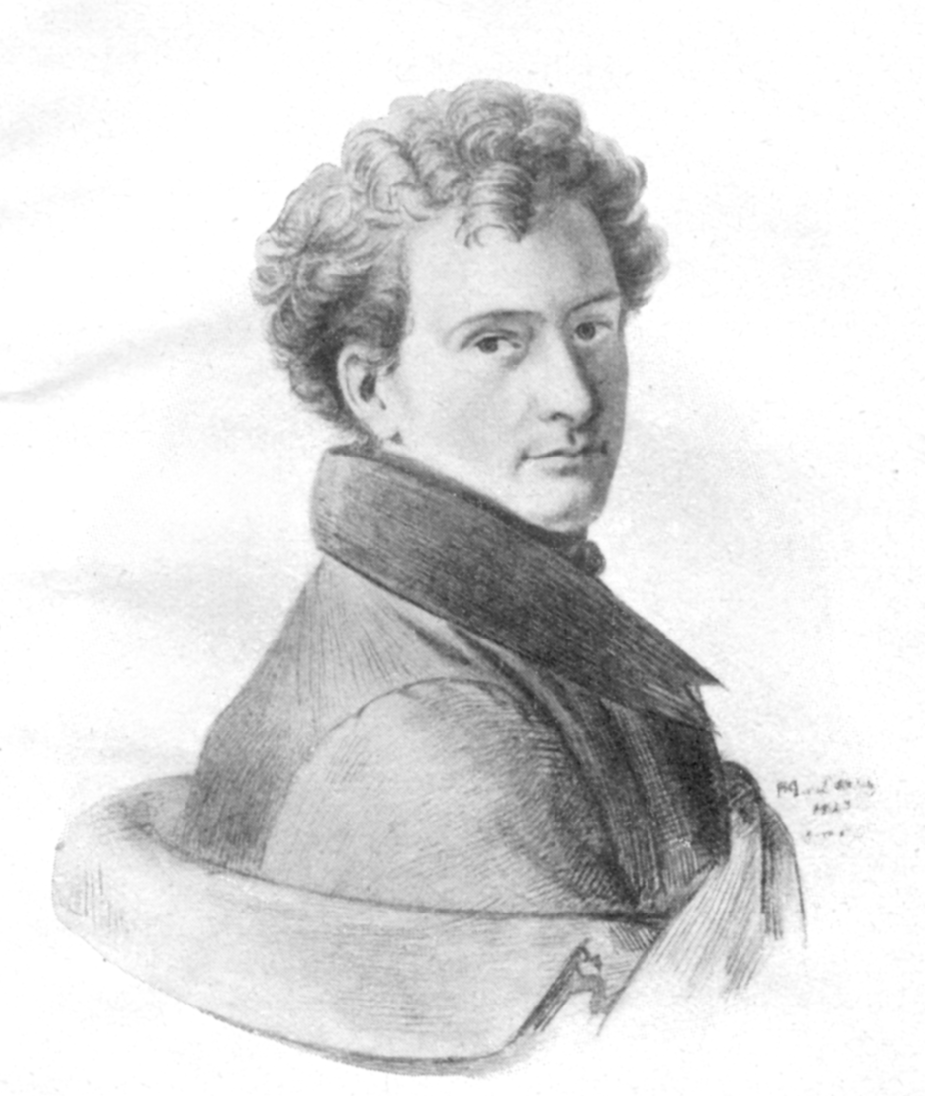 Drawing of Gottfried Osann (1796–1866). This drawing belonged to the heritage of Adele Schopenhauer and is now owned by the Goethe-Nationalmuseum.